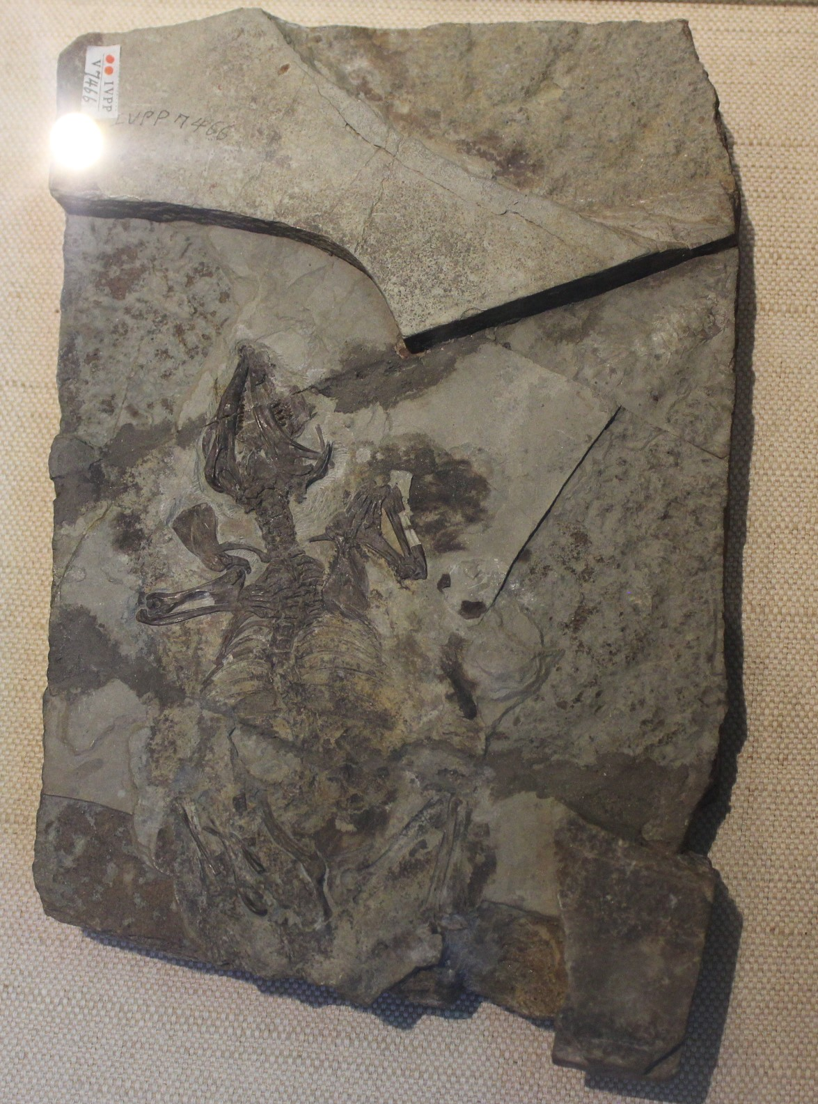 Holotype of Zhangheotherium quinquecuspidens on display at the Paleozoological Museum of China.